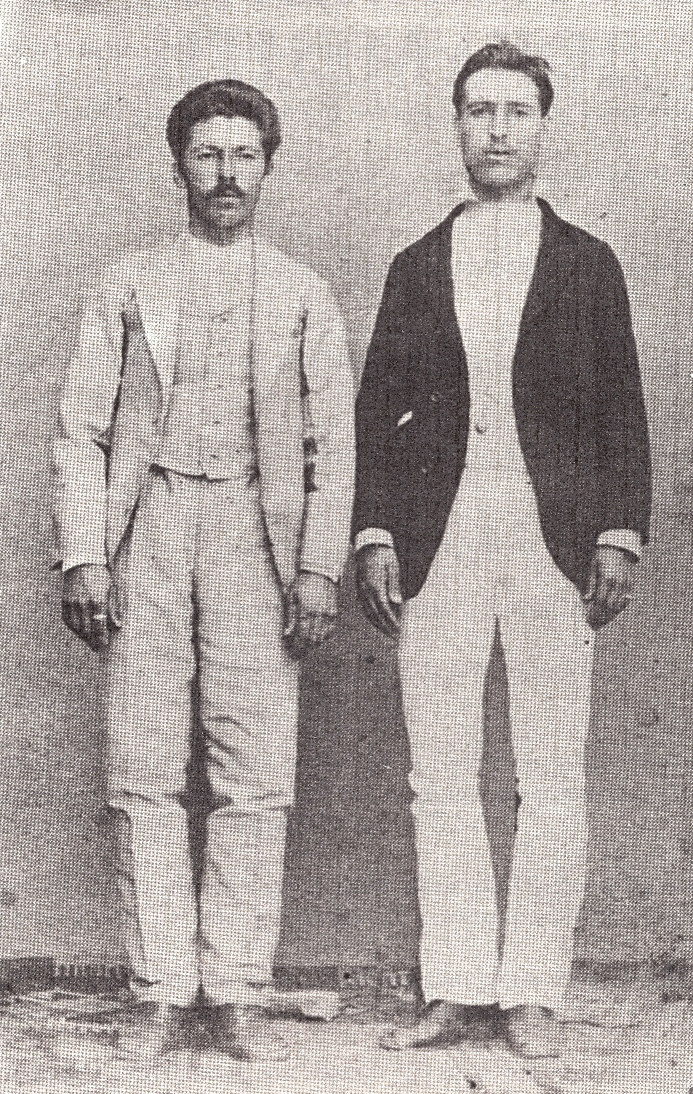 Portrait of Vasil Levski's comrades, Nikolcho Tsvetkov Bakardzhiata and Hristo Tsonev Latinetsa